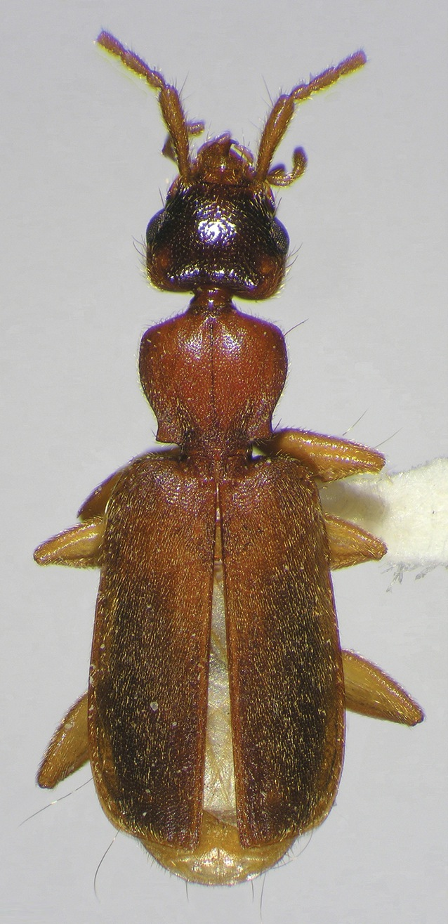 Habitus, dorsal aspect, of Zuphioides mexicanum (Chaudoir).